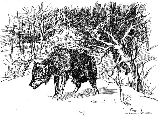 Wolf (a sketch)